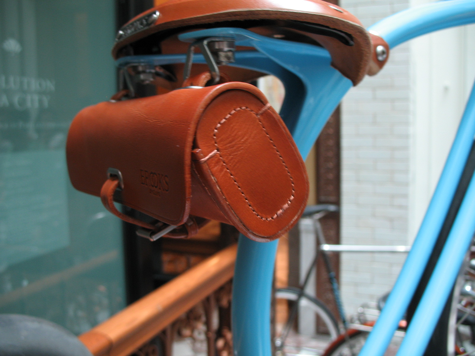 Leather saddlebag of bicycles